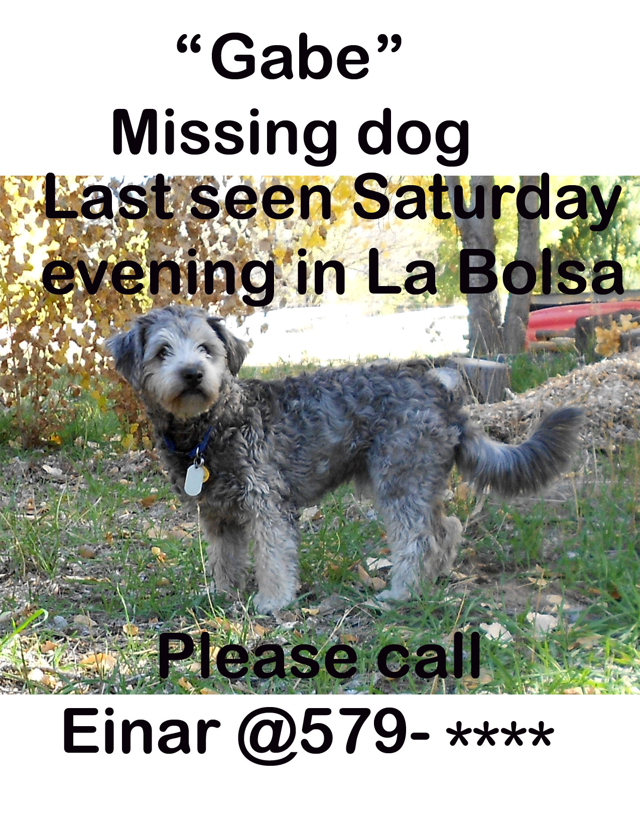 Poster of missing dog